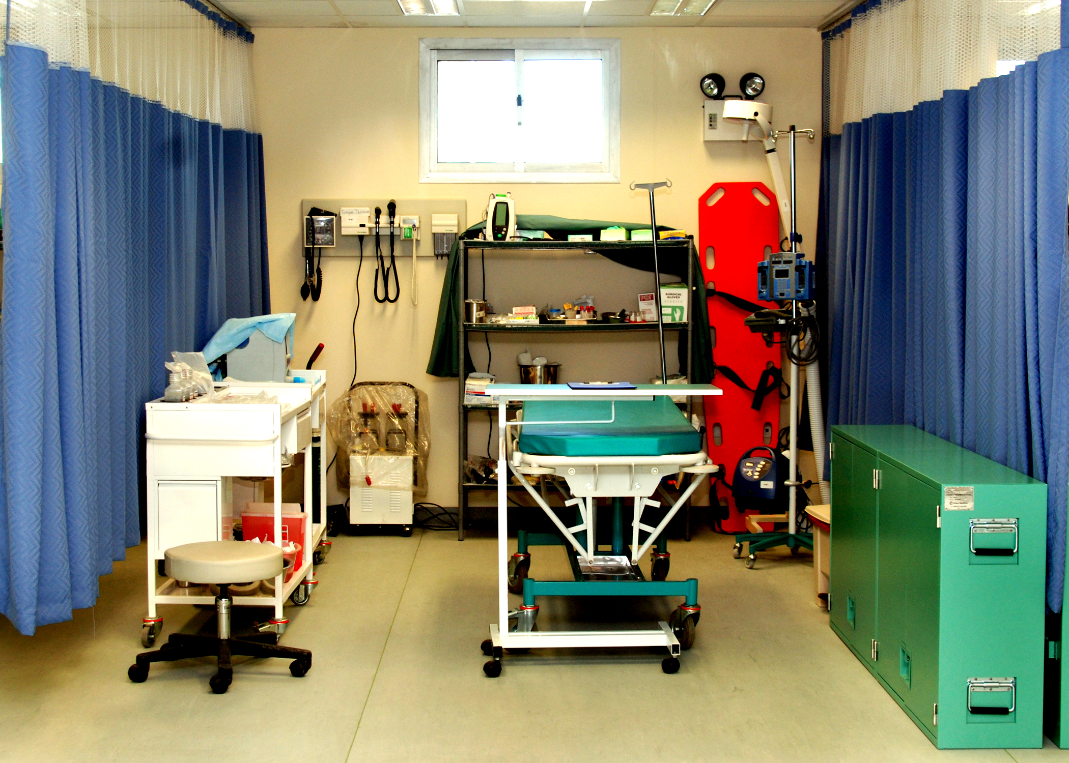 The treatment area adjacent to an operating room at the new Afghan National Army regional hospital, Dec. 15, 2007. The $5 million medical facility in Kandahar also serves a trauma center, with a helicopter landing pad only half a kilometer away. U.S. Navy Photo by Petty Officer 1st Class David M. Votroubek